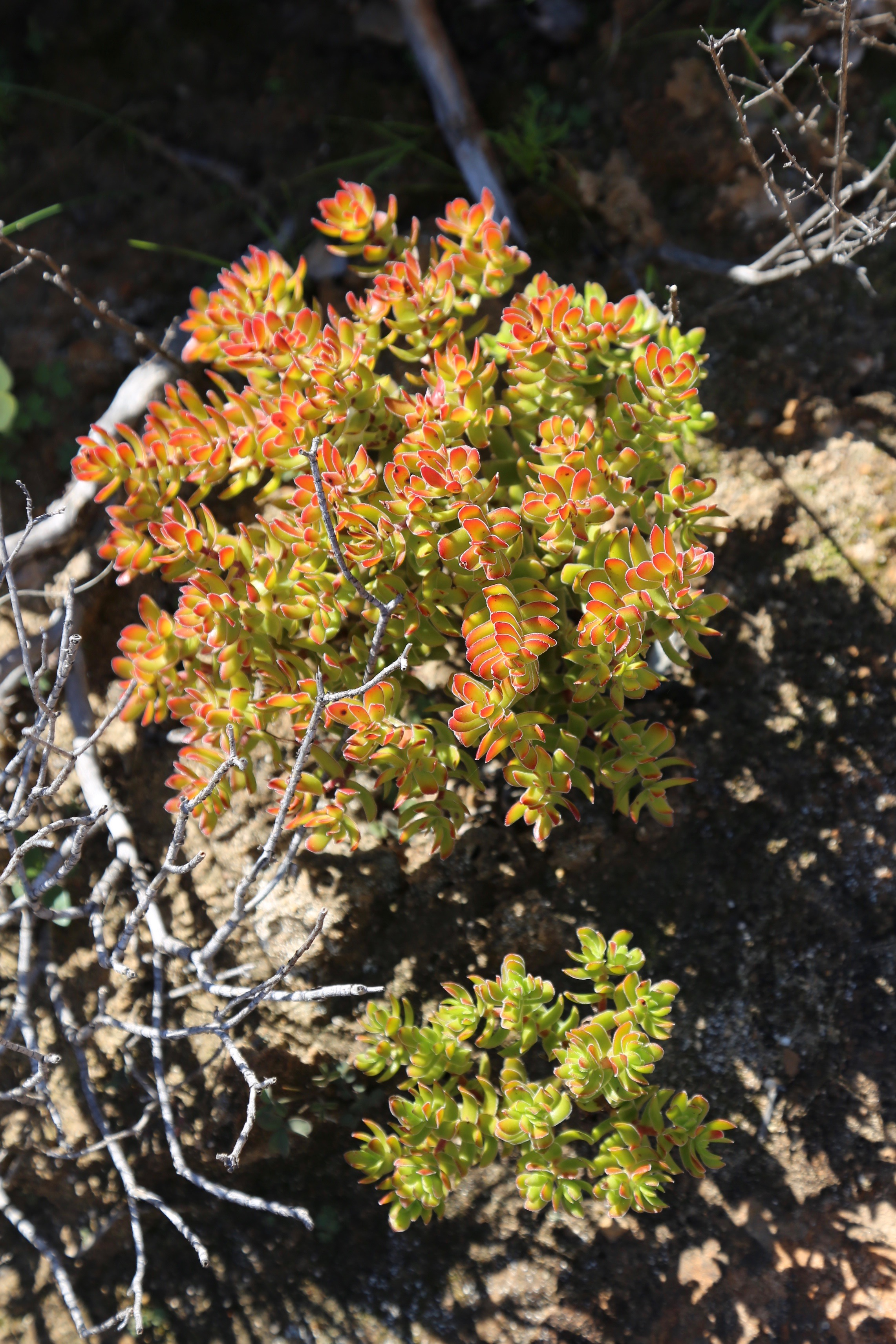 Cederberg Sandstone Fynbos – Cederberg Wilderness Area, Clanwilliam, Western Cape, South Africa